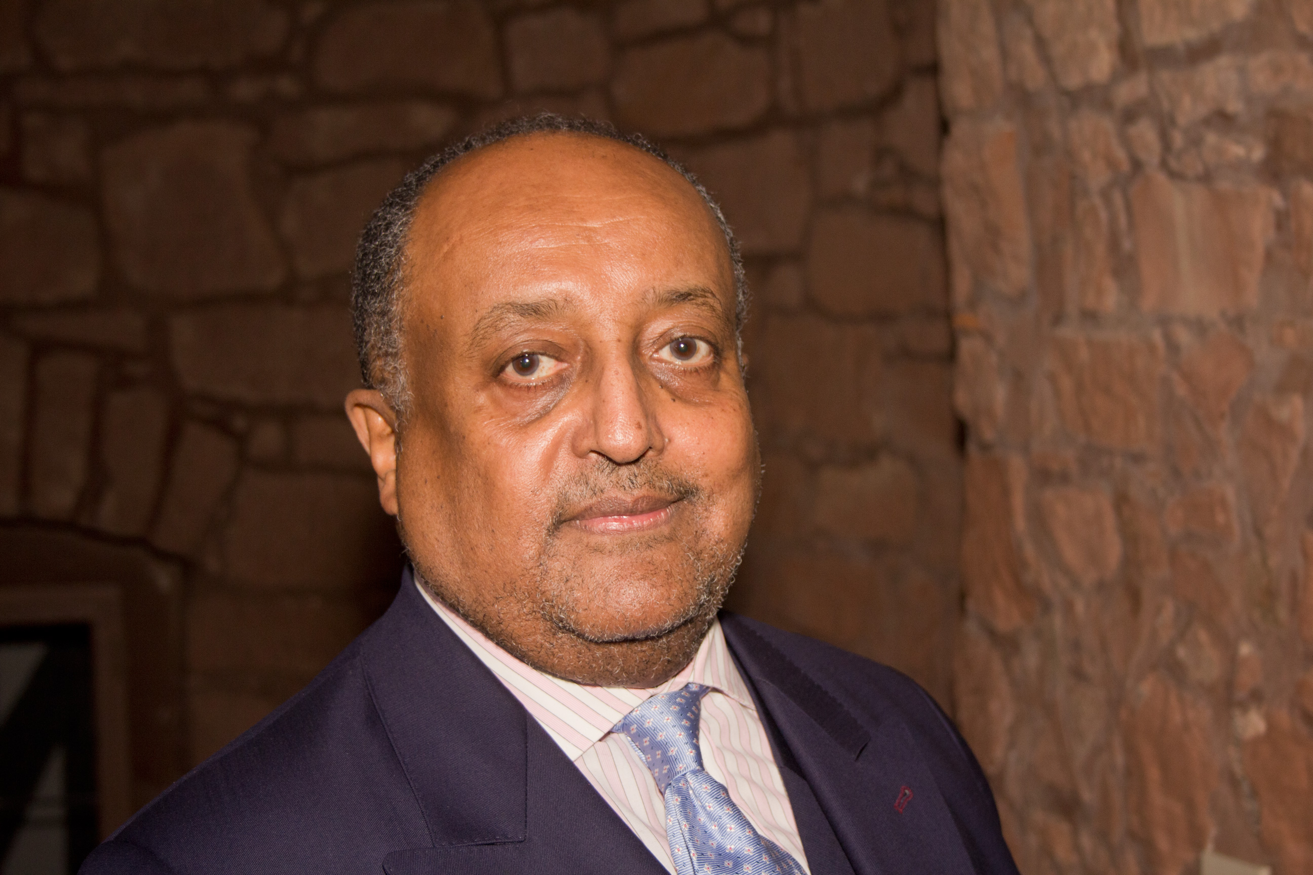 Prince Asfa-Wossen Asserate (Amharic: አስፋ-ዎሠን አሠርዓተ; born October 31, 1948 in Addis Ababa, Ethiopia), is a management consultant and an author writing in German, and a member of the Solomonic dynasty, the deposed royal family of Ethiopia. He is a grandnephew of the last Ethiopian Emperor Haile Selassie and a son of the former governor and viceroy of Eritrea, Li'ul Ras Asserate Kasa (Asserate-Maryam Kasa).